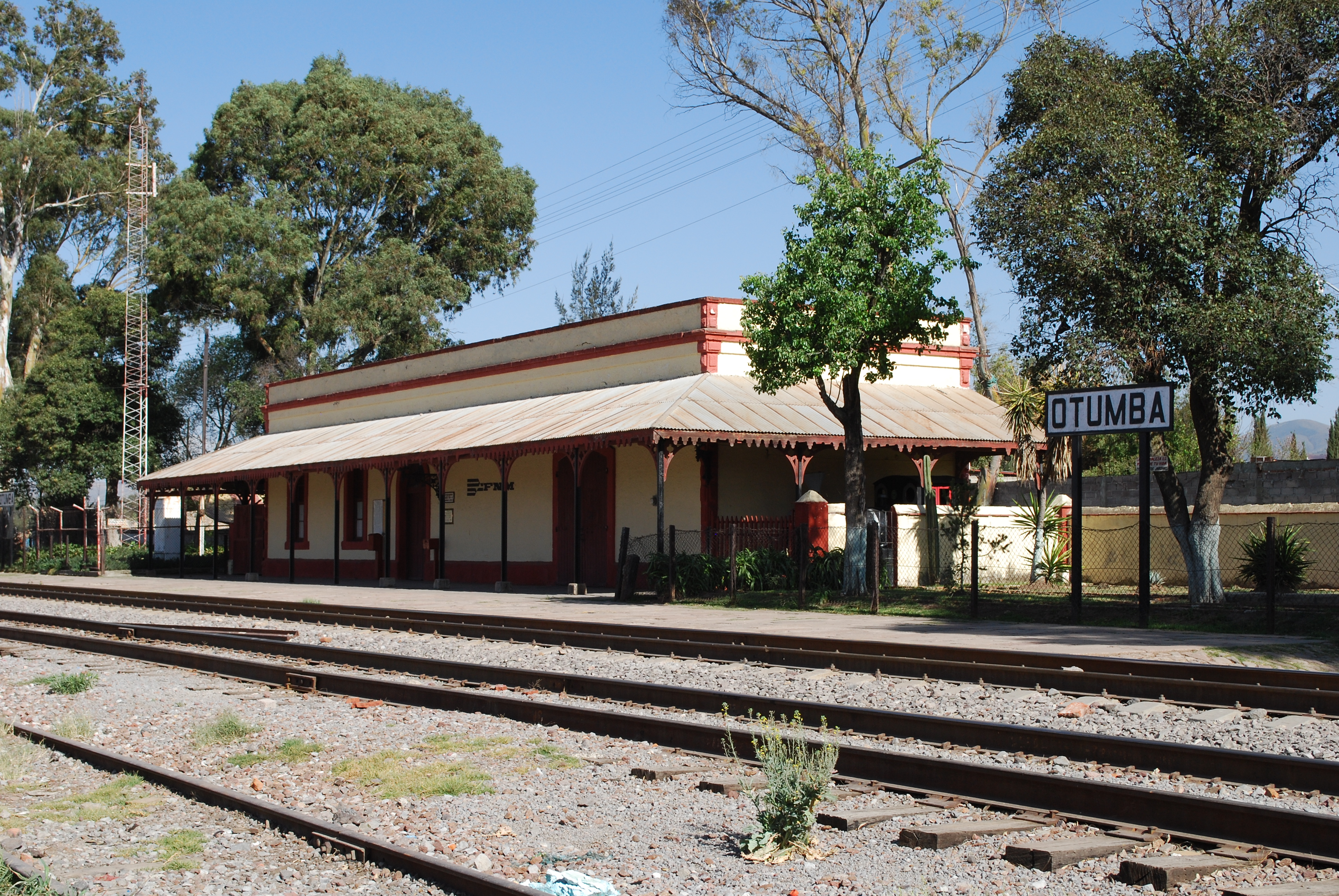 Former railroad station converted into a museum in Otumba, Mexico State